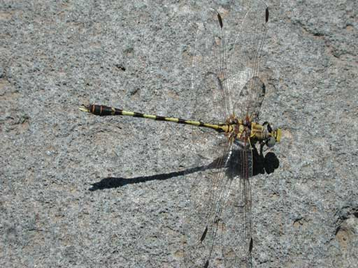 Progomphus borealis, Gray Sand Dragon. Cave Creek, Maricopa Co., Arizona, USA